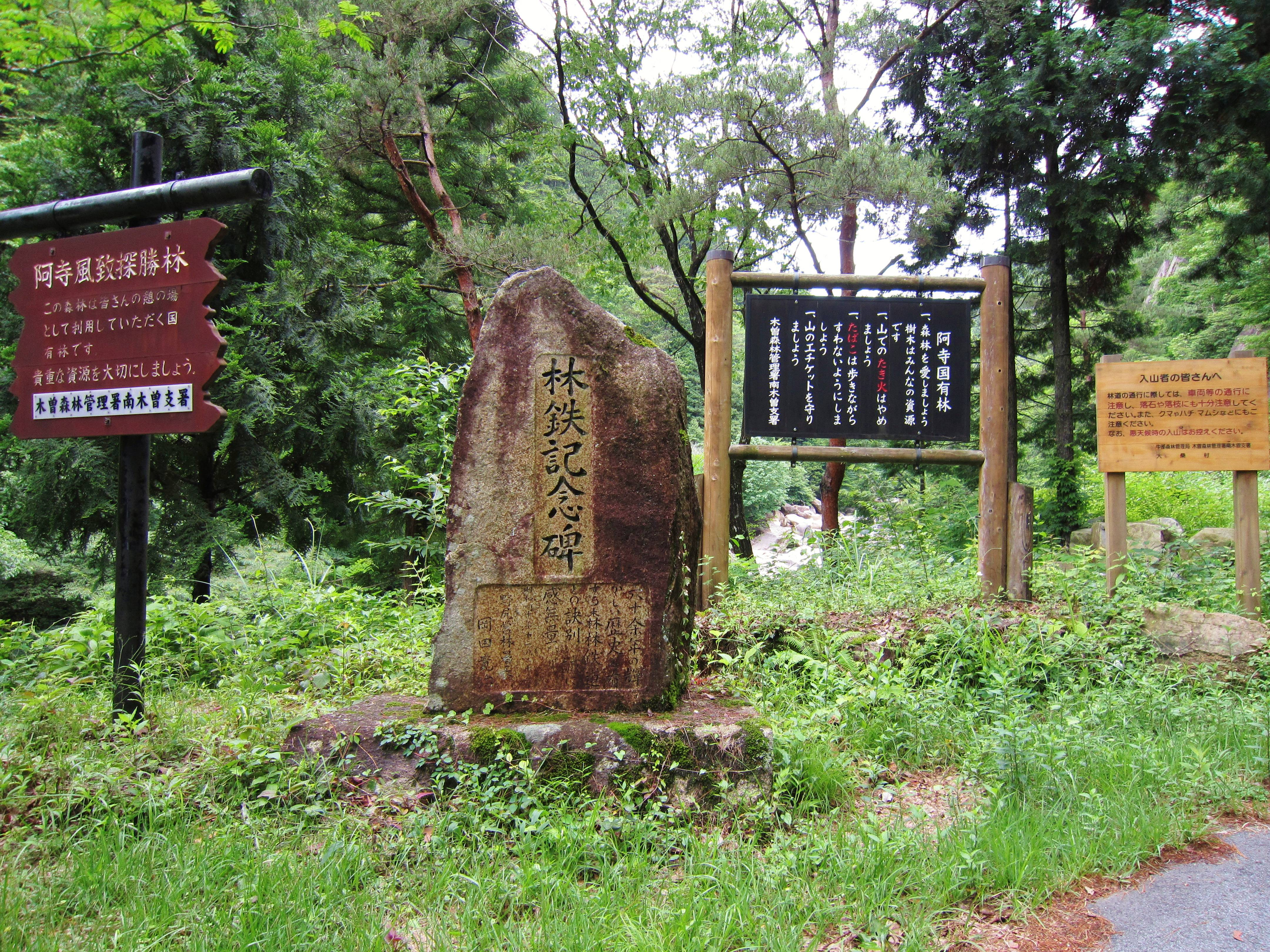 Atera forest railway monument (Okuwa, Nagano).